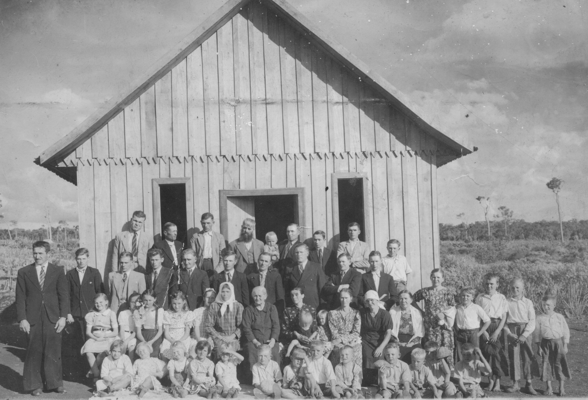 Ukrainian Baptist Church - 1940